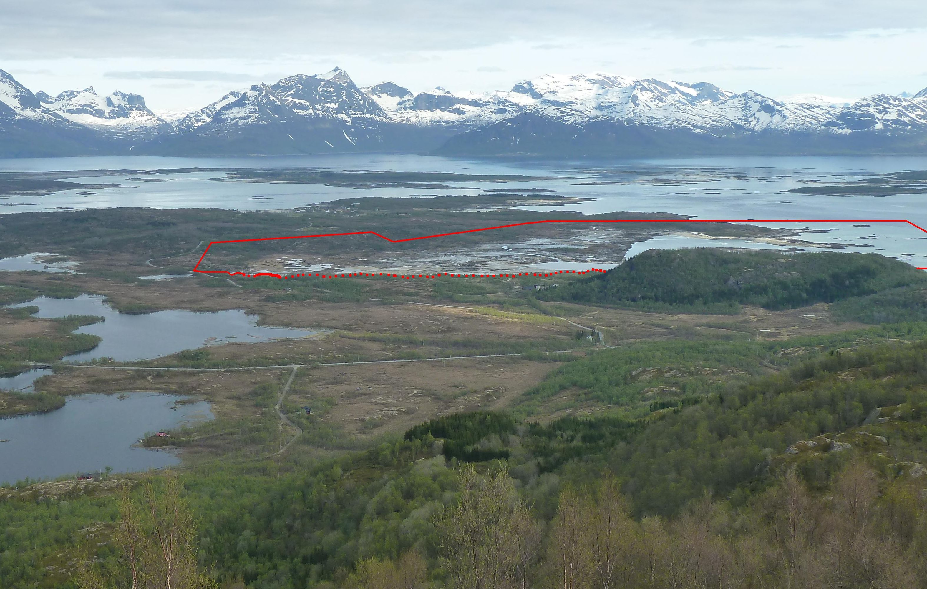 Steinslandsosen Nature Reserve in Hamarøy. Approximate borders drawn in red.